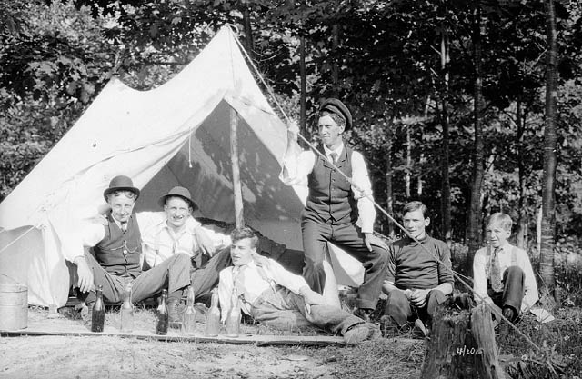 Unidentified group of men camping, Muskoka Lakes, Ont